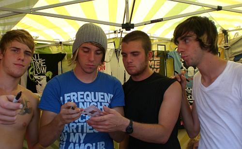 All Time Low band members, from left to right: Zachary Merrick, Alex Gaskarth, Rian Dawson and Jack Barakat.